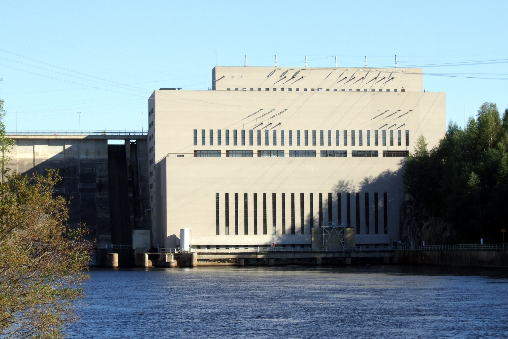 Pyhäkoski power plant in the River Oulu in Northern Finland. The plant was designed by architect Aarne Ervi and completed in 1951. The current capacity is 122 MWe.